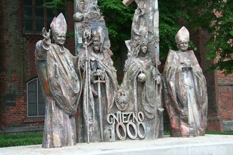 The Millenium Memorial in Kolobrzeg Poland by Wiktor Szostalo